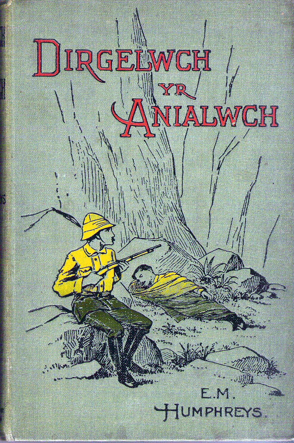 Illustrated front cover of Dirgelwch yr Anialwch, a collection of short stories by Welsh-language author Edward Morgan Humphreys(Cwmni y Cyhoeddwyr Cymreig, Swyddfa "Cymru", Caernarfon, 1911).